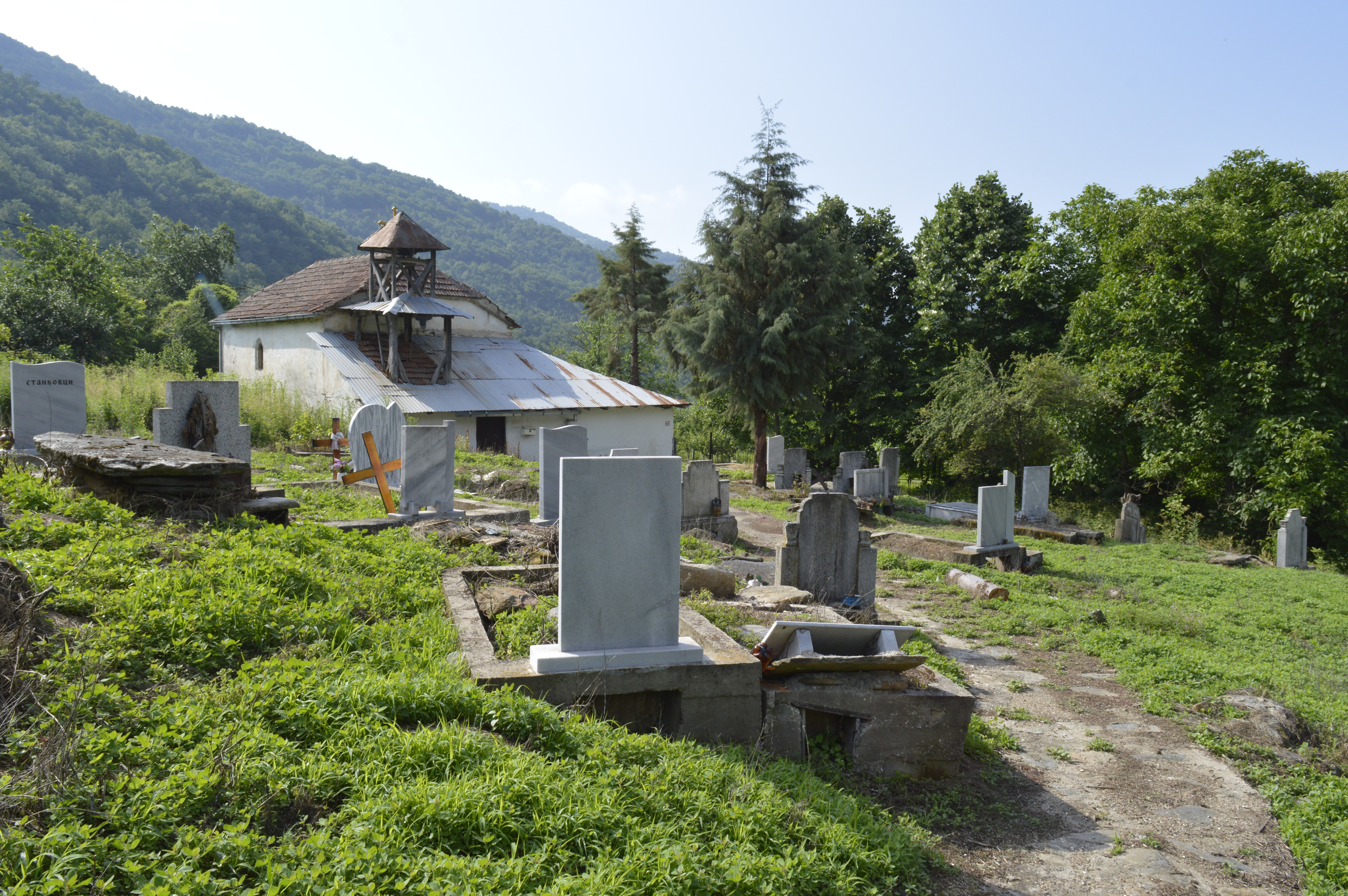 Local cemeteries in the village Nežilovo